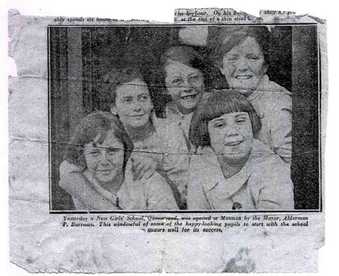 Newspaper clipping reporting the opening of Queenwood School for Girls in 1925. The first five students can be seen.